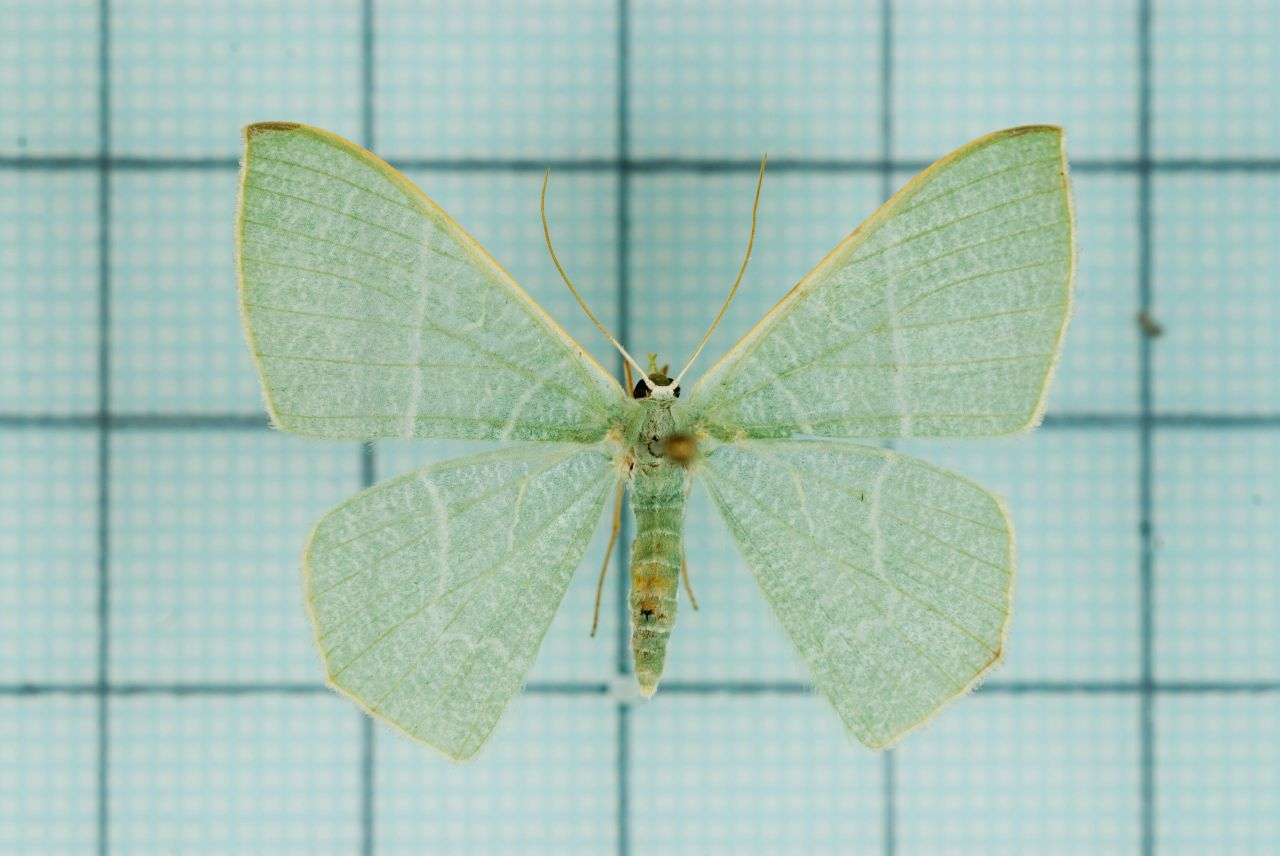 Orothalassodes falsaria (Prout, 1912) (syn.: Thalassodes falsaria Prout, 1912) 弧翠尺蛾 臺灣尺蛾科圖鑑１ P.78 female